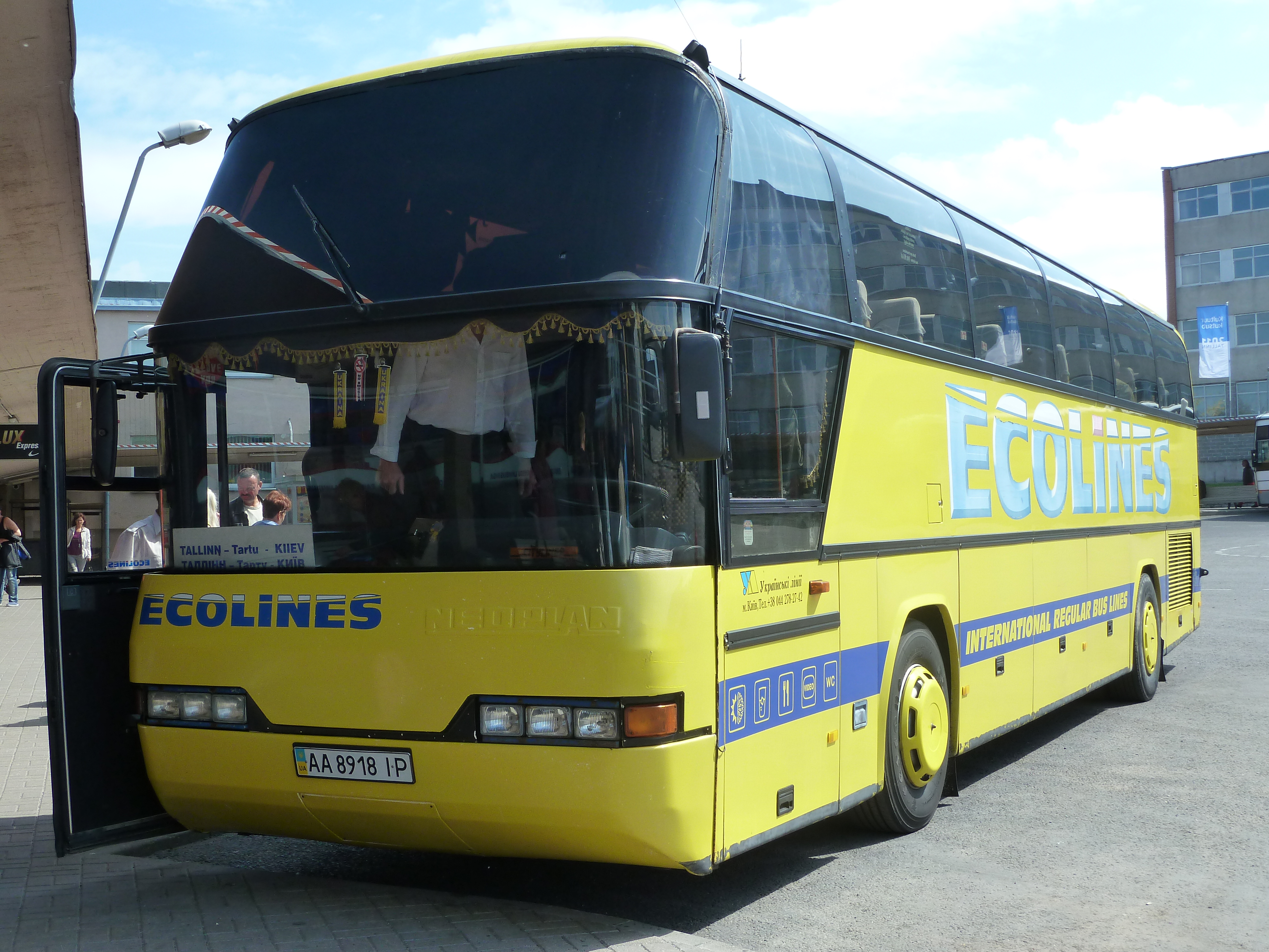 Ecolines Neoplan Cityliner reg: AA 8918 IP at Tallinn bus station with a service to Kiev 24-6-11